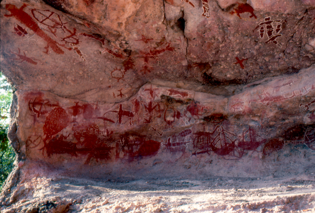 Petroglyphs from the North wall of the Yintayin cave on Stanley Islands North Coast. Of note are the images of western style ships in the lower center of the image. These appear to be much earlier vessels than the Endevour sailed by James Cook in 1770. His was the first ship to return to Europe with reports of exploration of Australias north East coast.